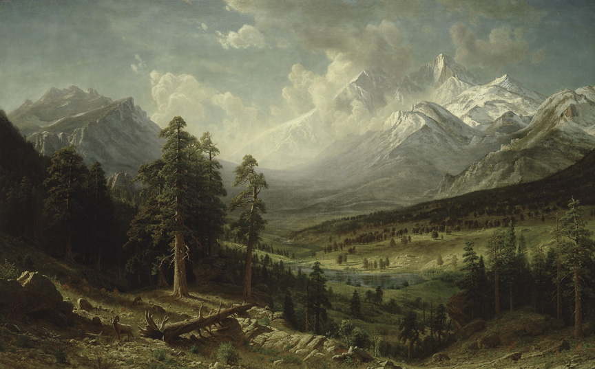 Albert Bierstadt was commissioned by the Earl of Dunraven to make a painting of the Estes Park and Longs Peak area in 1876 for $15,000. The painting is now on display at the Denver Art Museum (on loan from the Denver Public Library).